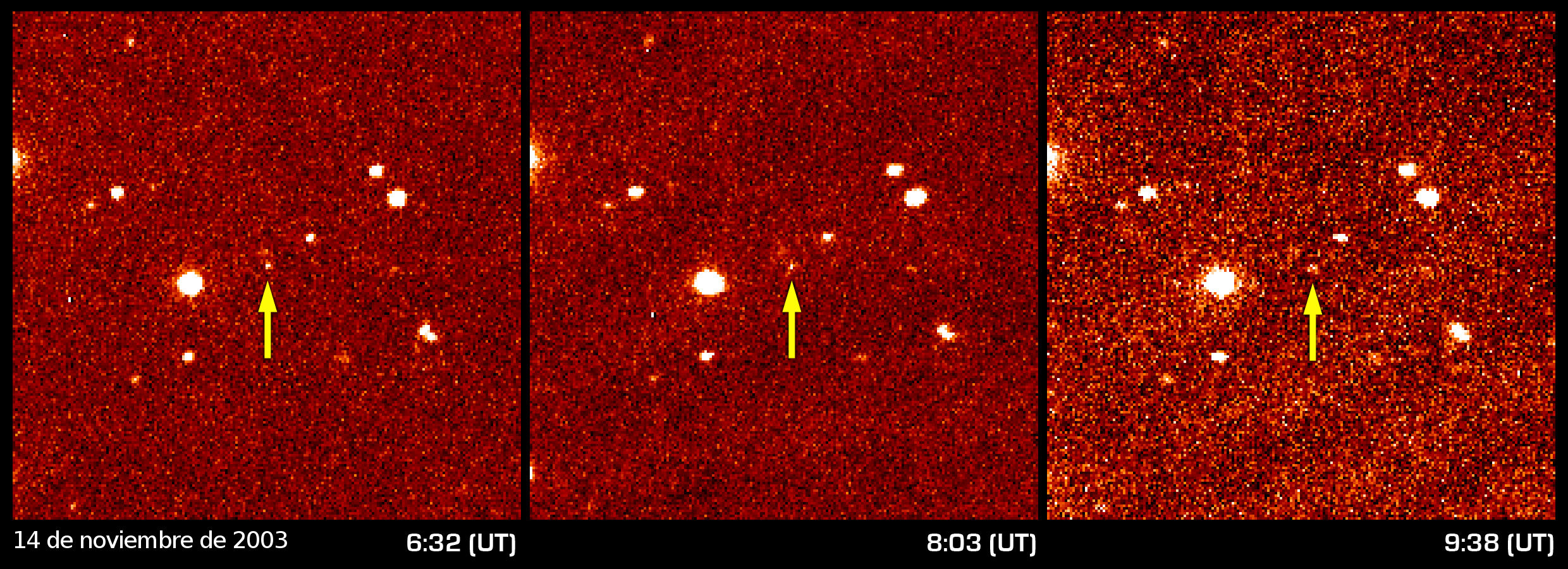 These three panels show the first detection of the faint distant object dubbed "Sedna." Imaged on November 14th from 6:32 to 9:38 Universal Time, Sedna was identified by the slight shift in position noted in these three pictures taken at different times. Subsequent observations at longer time intervals provided the information necessary to deduce the nature of Sedna's 10,500 year orbit around the Sun. The field of view of each frame is 3.4 arcminutes square, and each pixel is 1.0 arcsecond. Version with date in Spanish